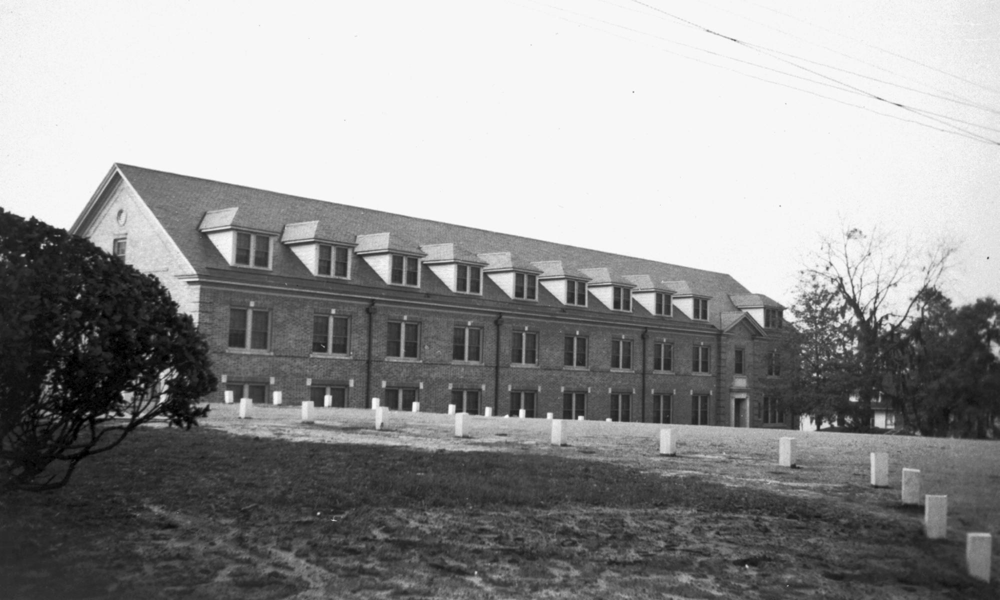 A historic photo of the 1946 addition to the 1937 Girls' dormitory on the University of Florida Campus